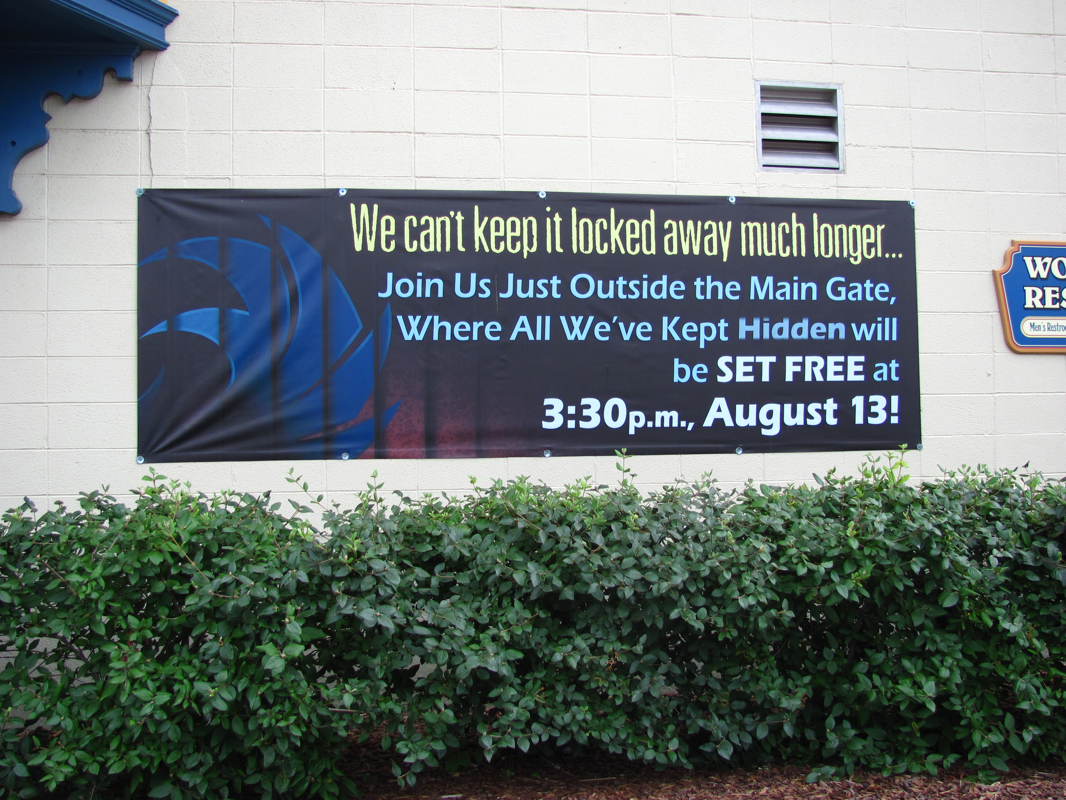 Banner at Cedar Point amusement park in Sandusky, Ohio announcing the August 13, 2012 reveal date for the new rollercoaster, GateKeeper, which officially debuted in May, 2013.